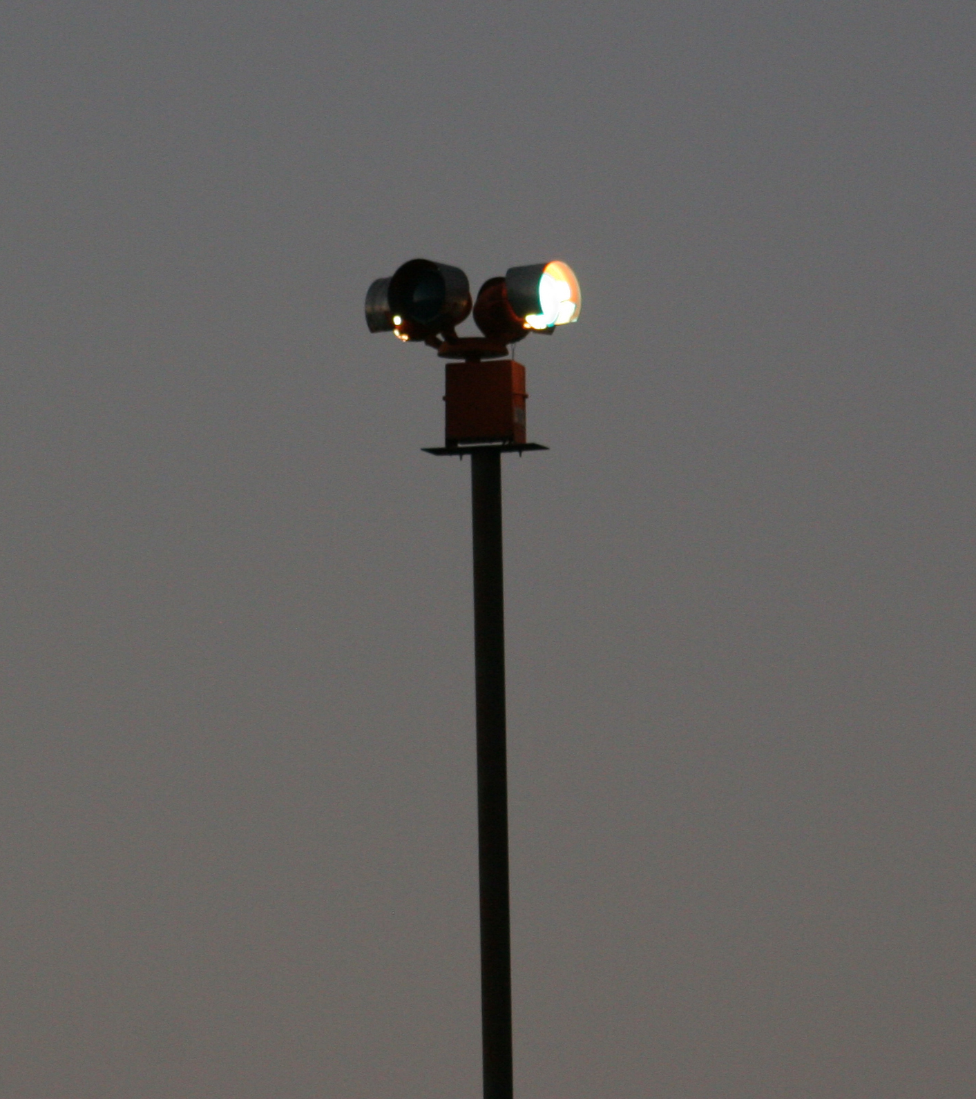 The rotating beacon at French Valley airport